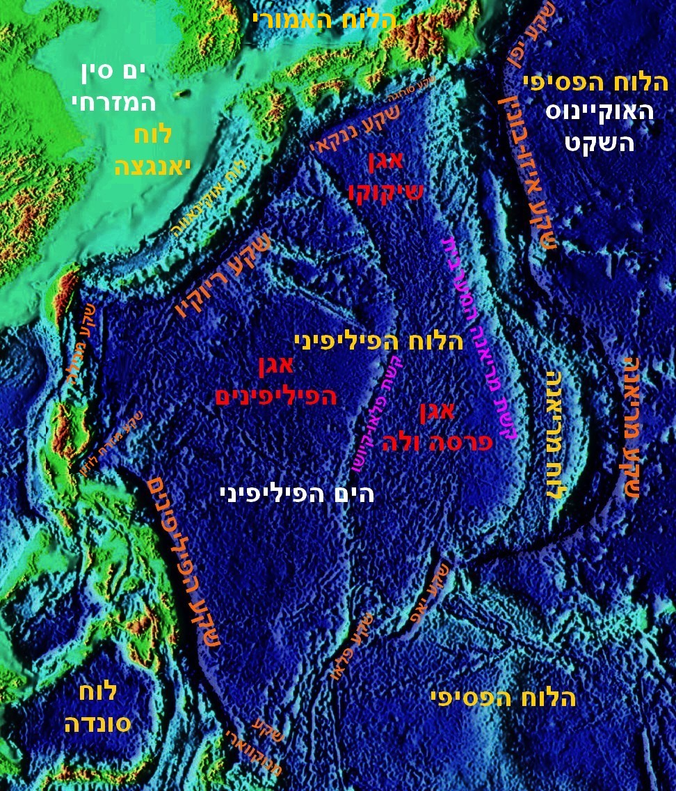 Bathymetry of the Philippine Sea